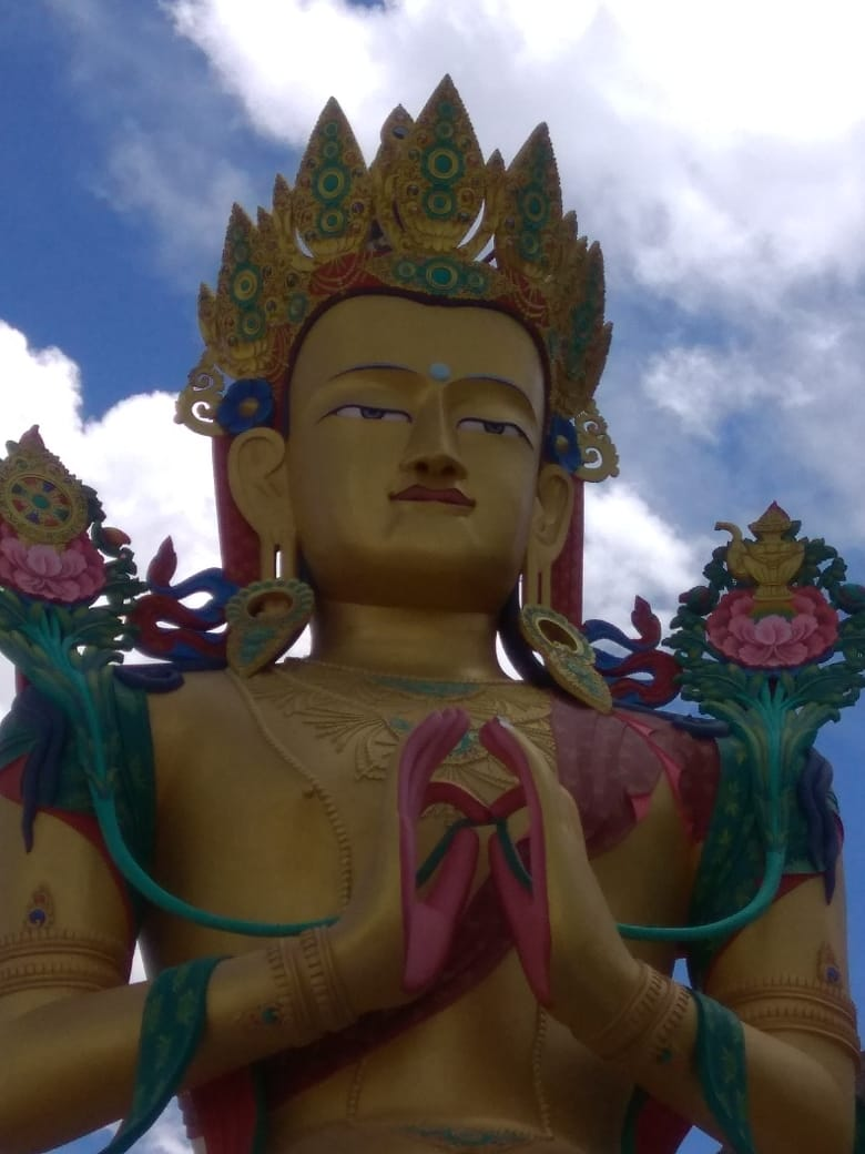 Diskit Monastery Buddha Statue near Nubra Valley in Leh Ladakh